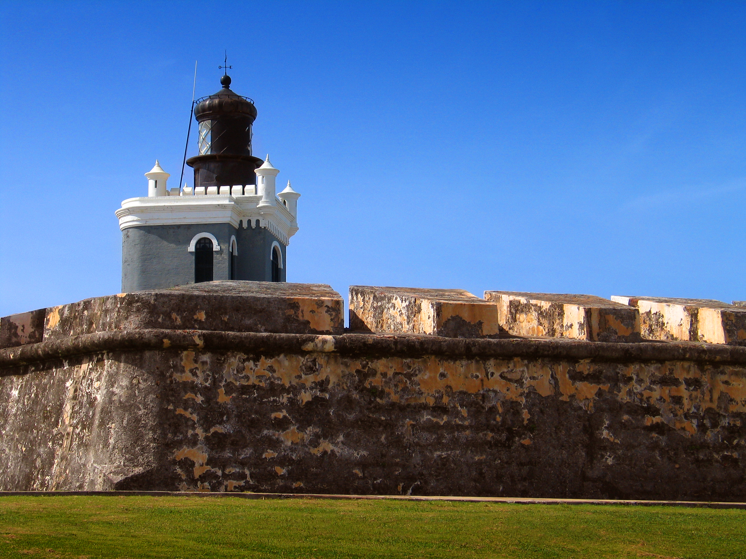 Faro de Morro, Summit of San Felipe del Moro Castle Old San Juan